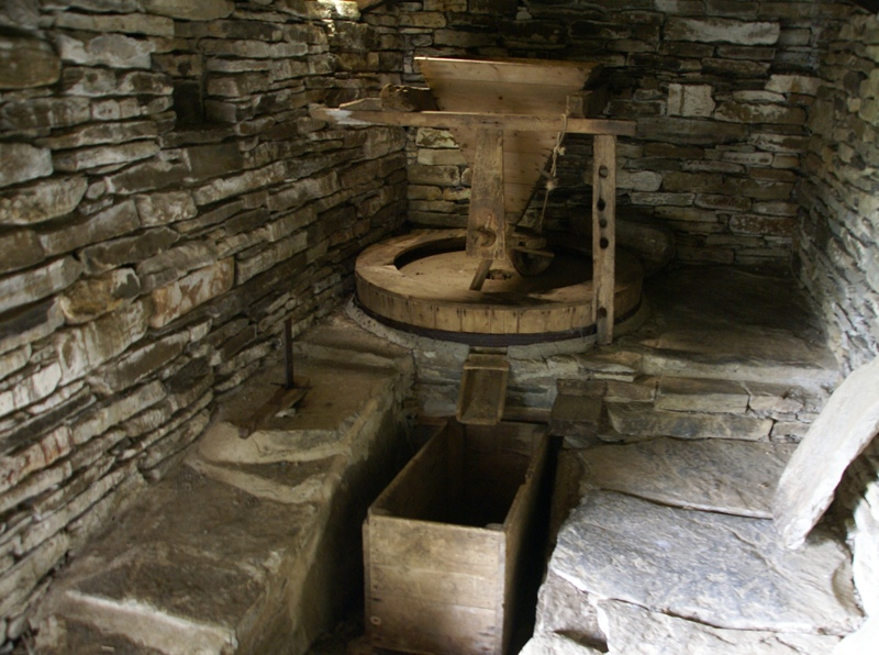 Click Mill, Dounby, Mainland, Orkneys, Scotland. Interior.